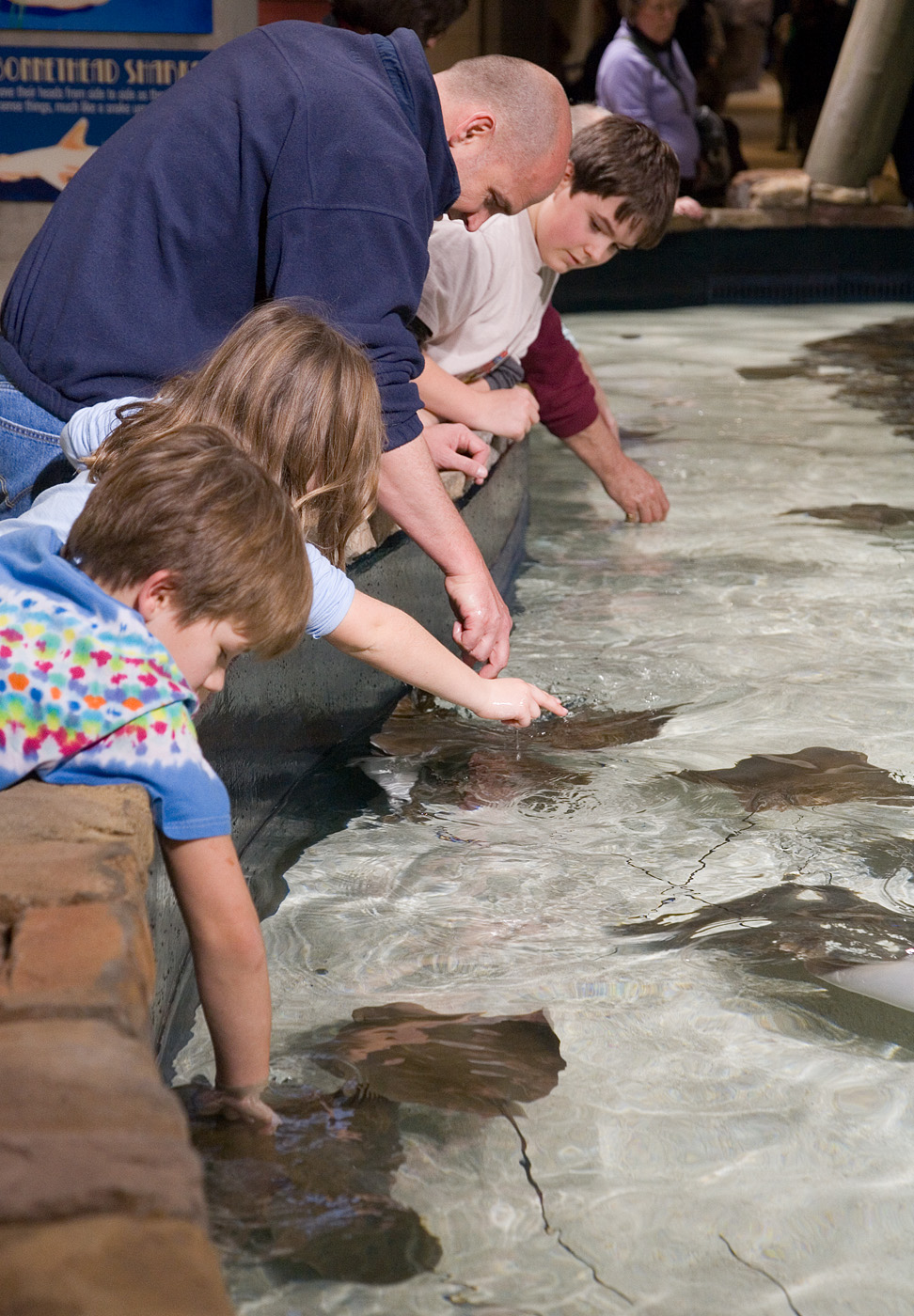 The Georgia Aquarium Petting Tank featuring Stingrays and Bonnethead Sharks